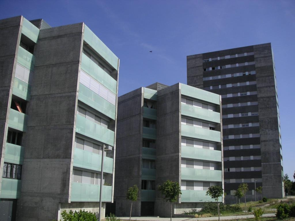 Housing estate Pradolongo II in Madrid (Spain).